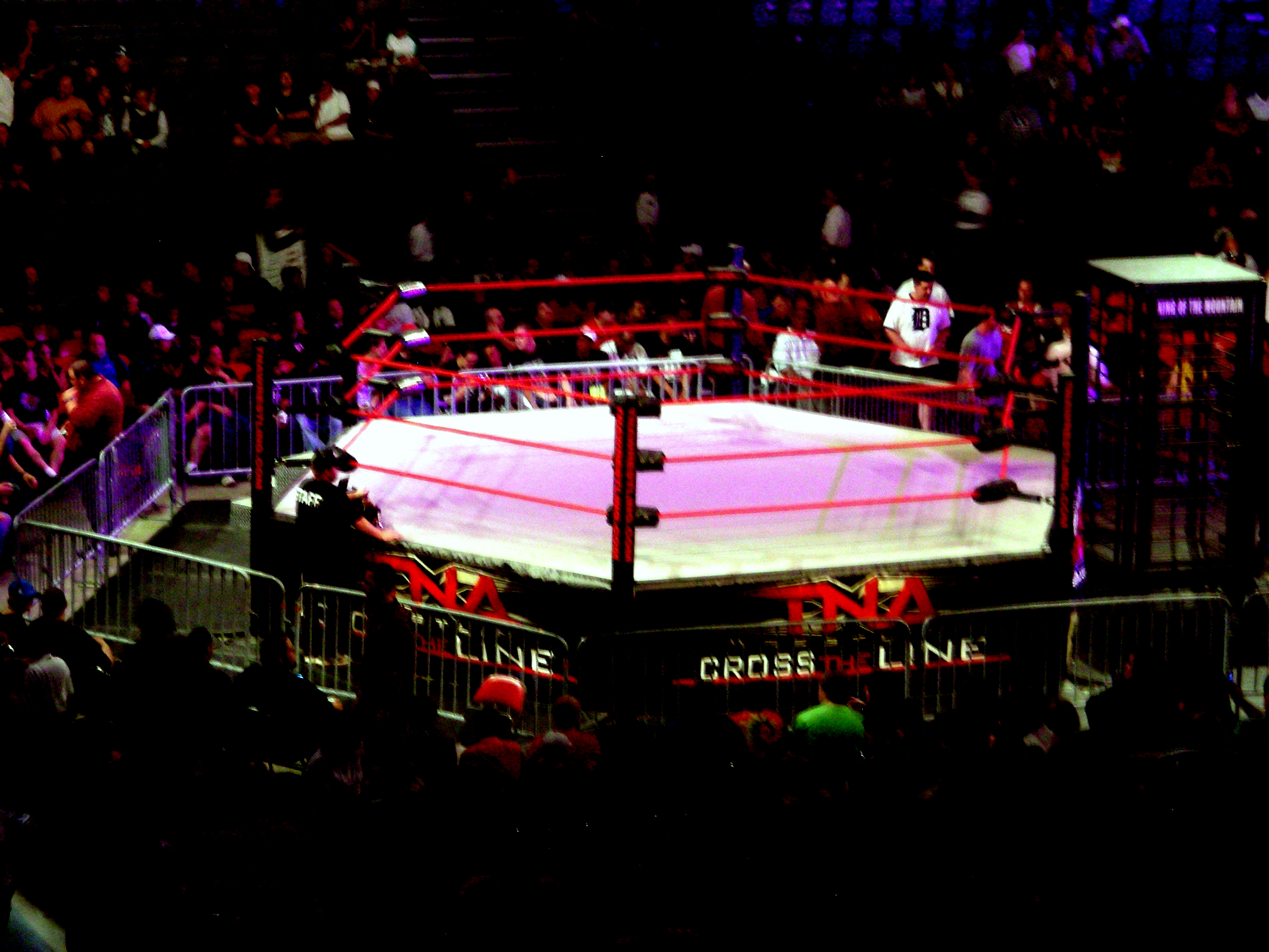 back in the day when TNA had a 6-sided ring!